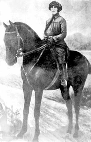 portrait of Mara Buneva